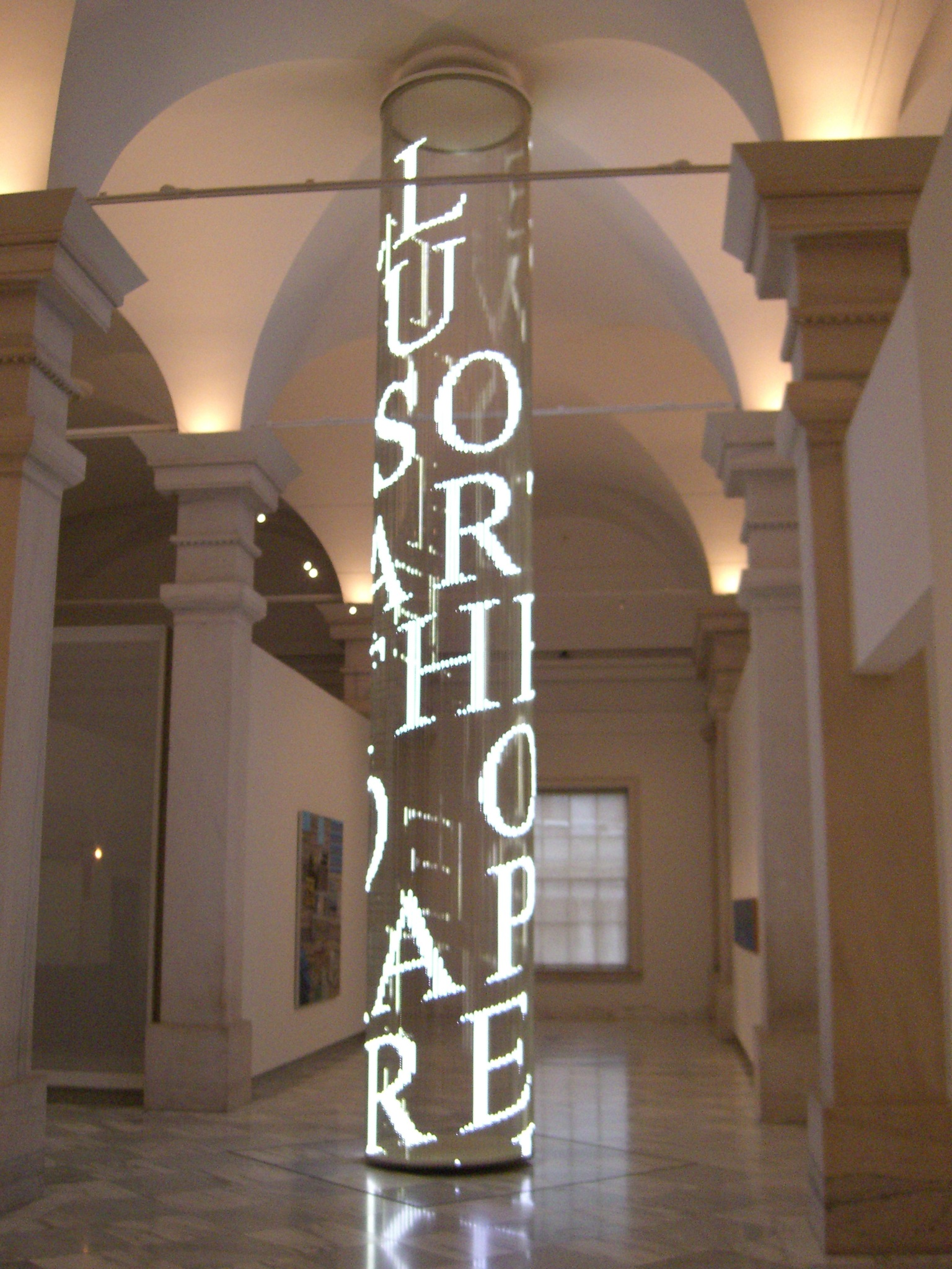 A photograph of Jenny Holzer's sculptural installation for the Smithsonian American Art Museum